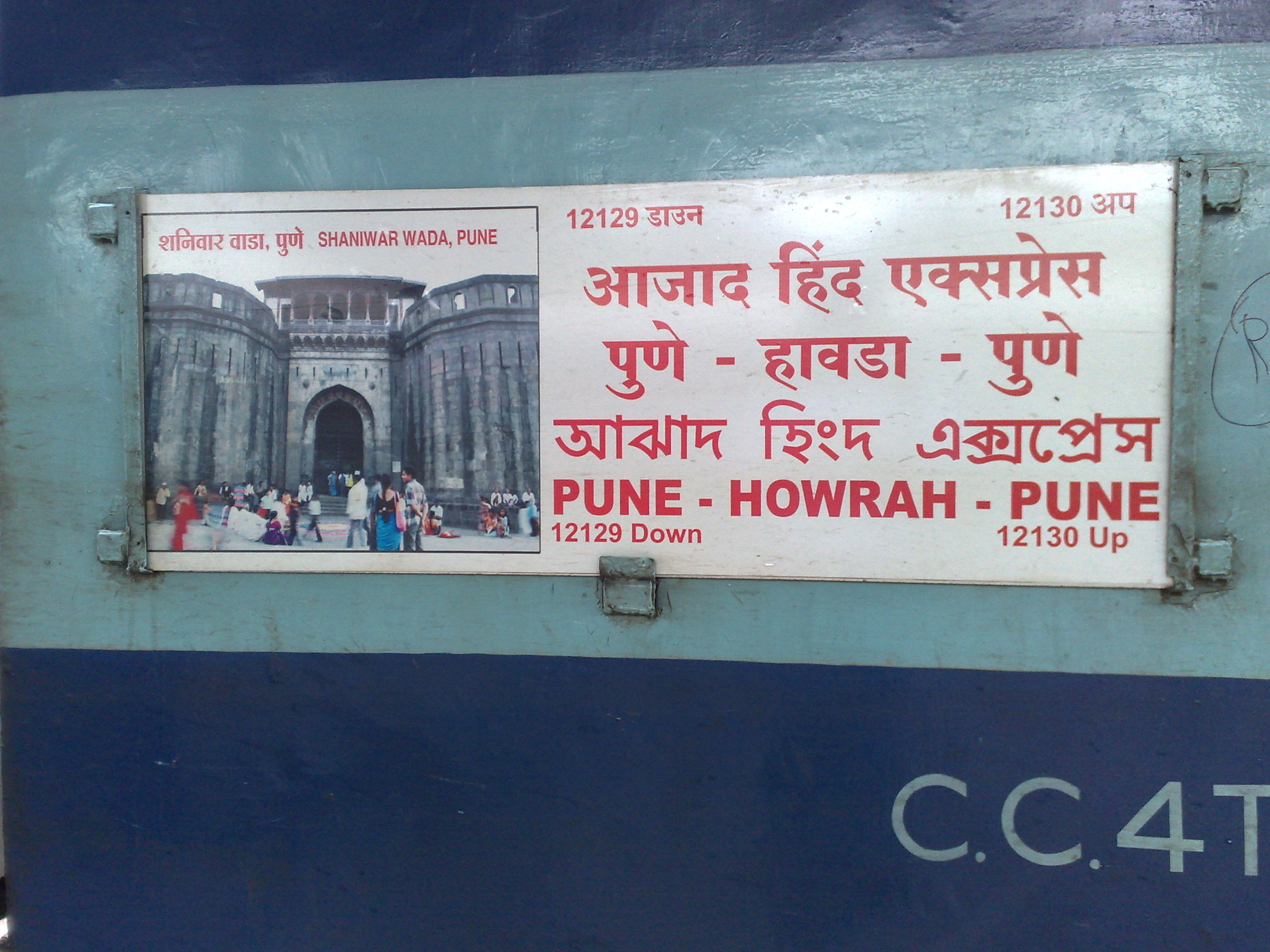 Azad Hind Express